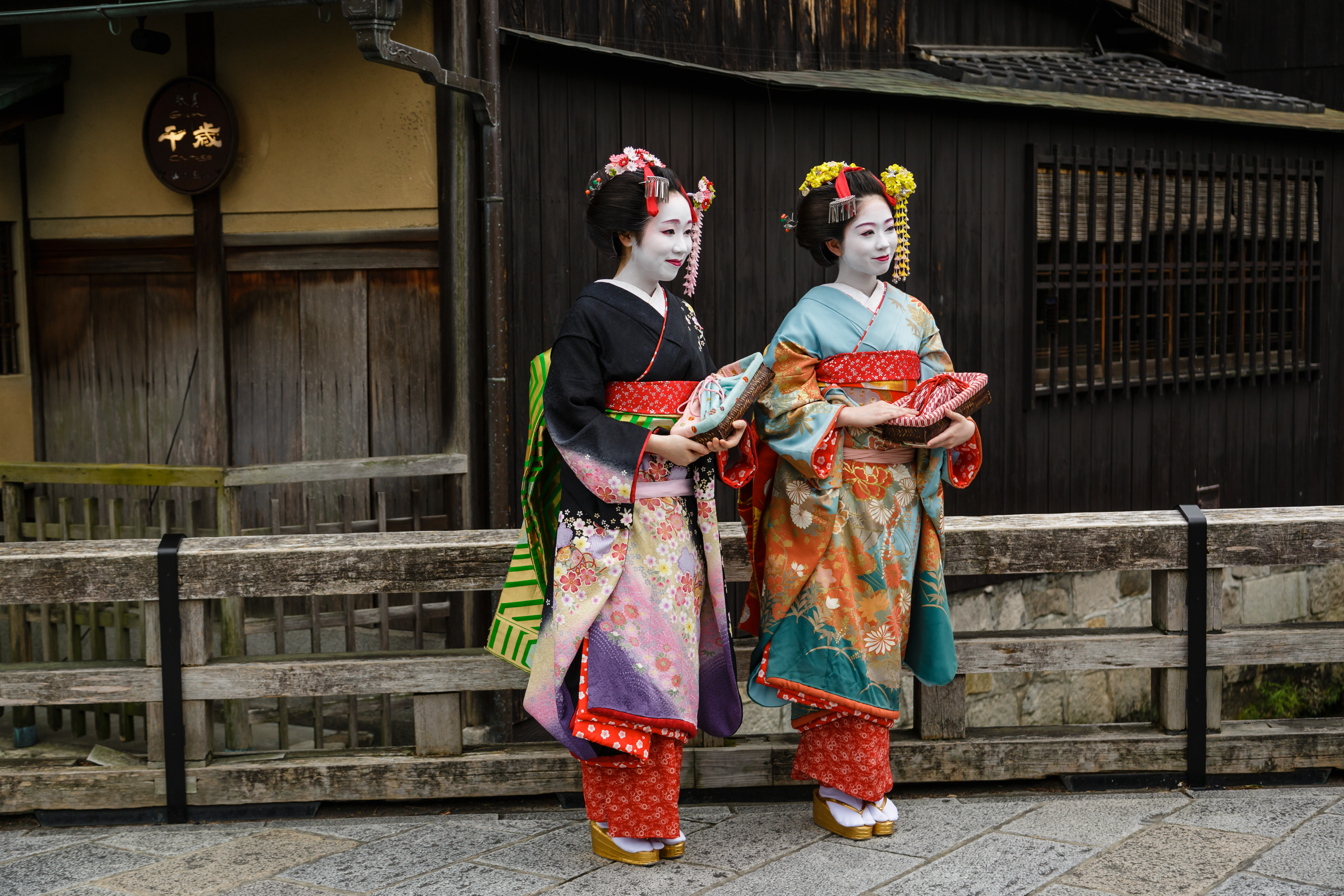 Geishas in Kyoto